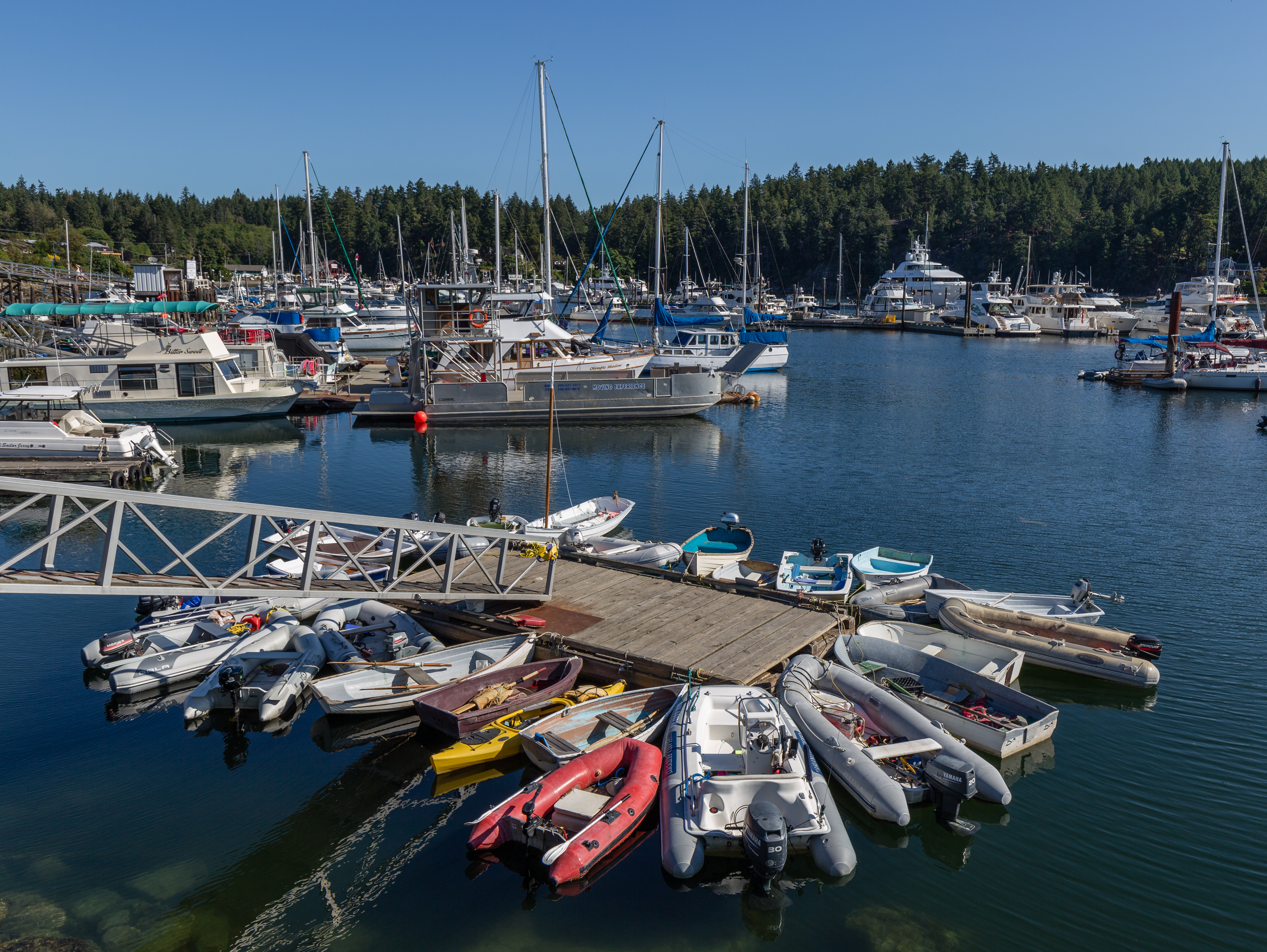 Harbor in Ganges, Saltspring Island, British Columbia, Canada